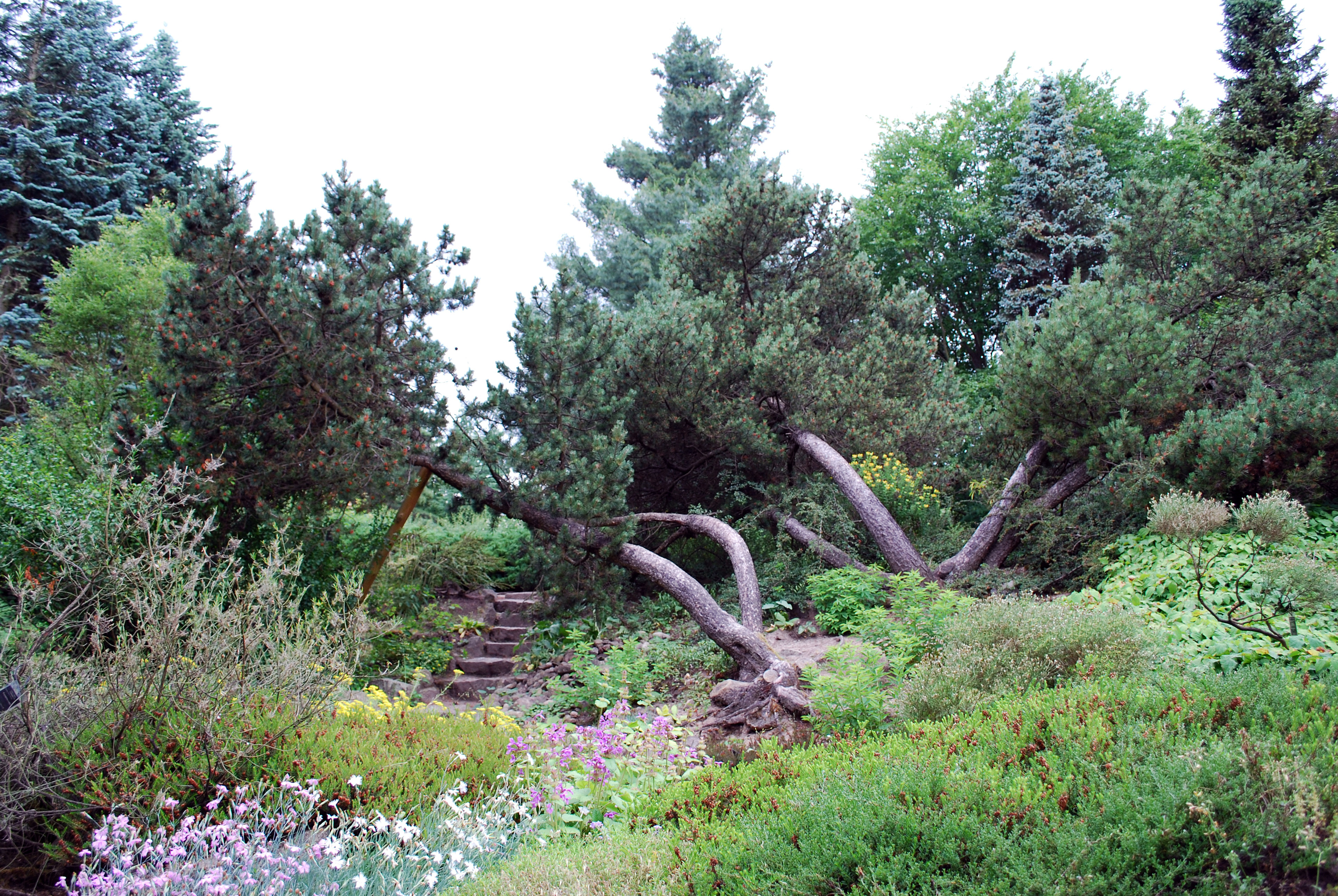 Alpinarium in Arboretum in Rogow